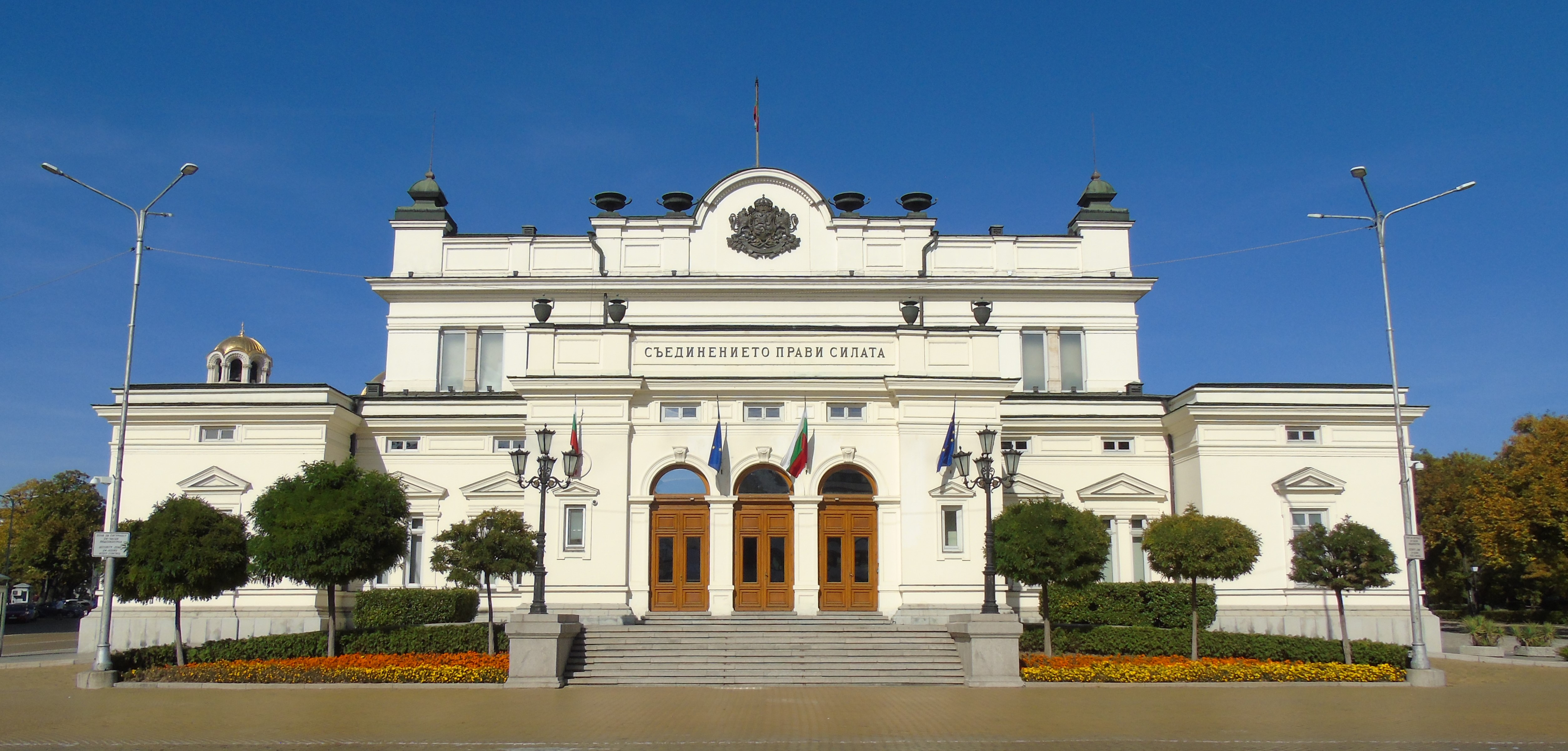 National Assembly main building, Bulgaria